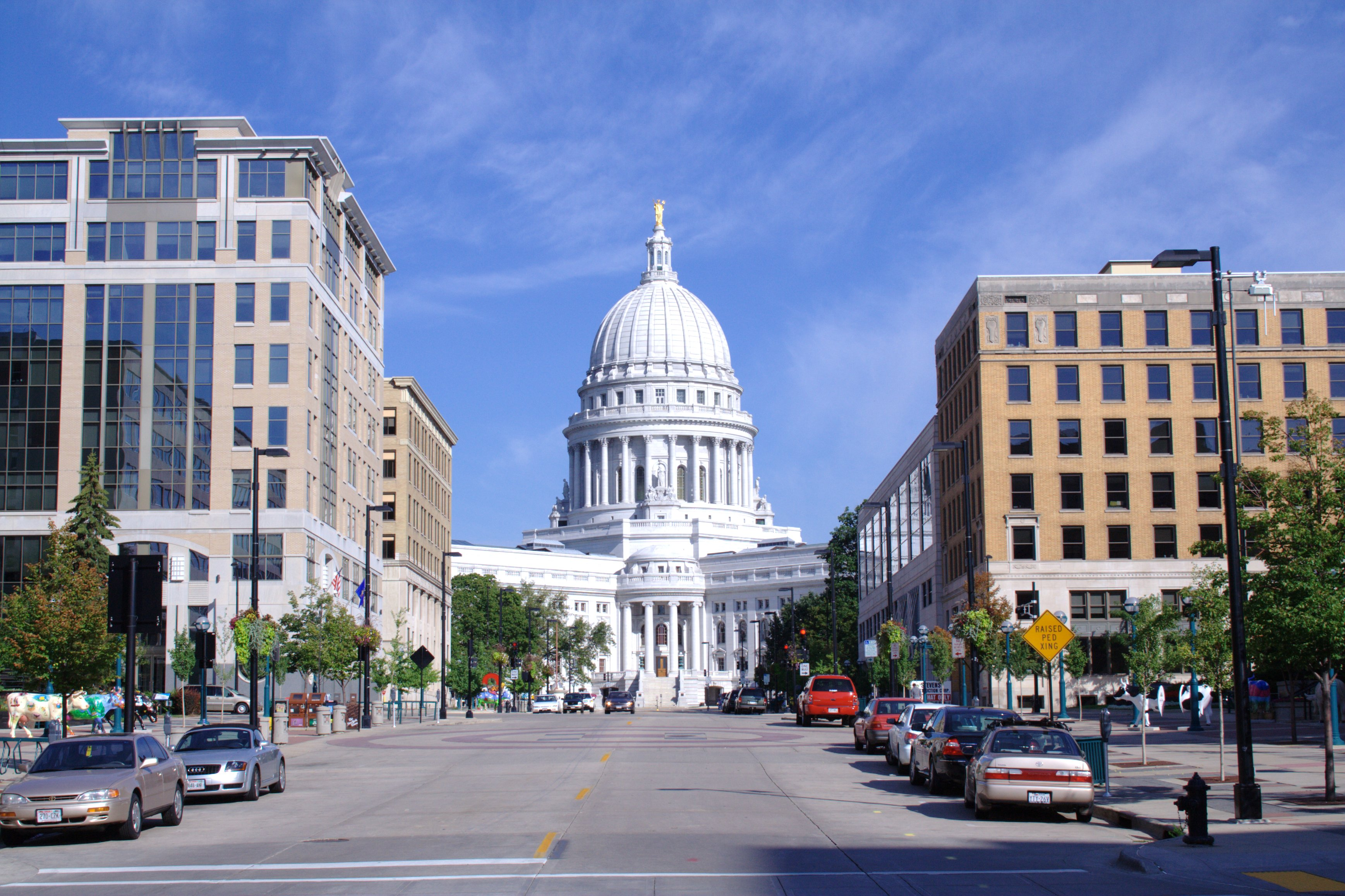 Madison, Wisconsin